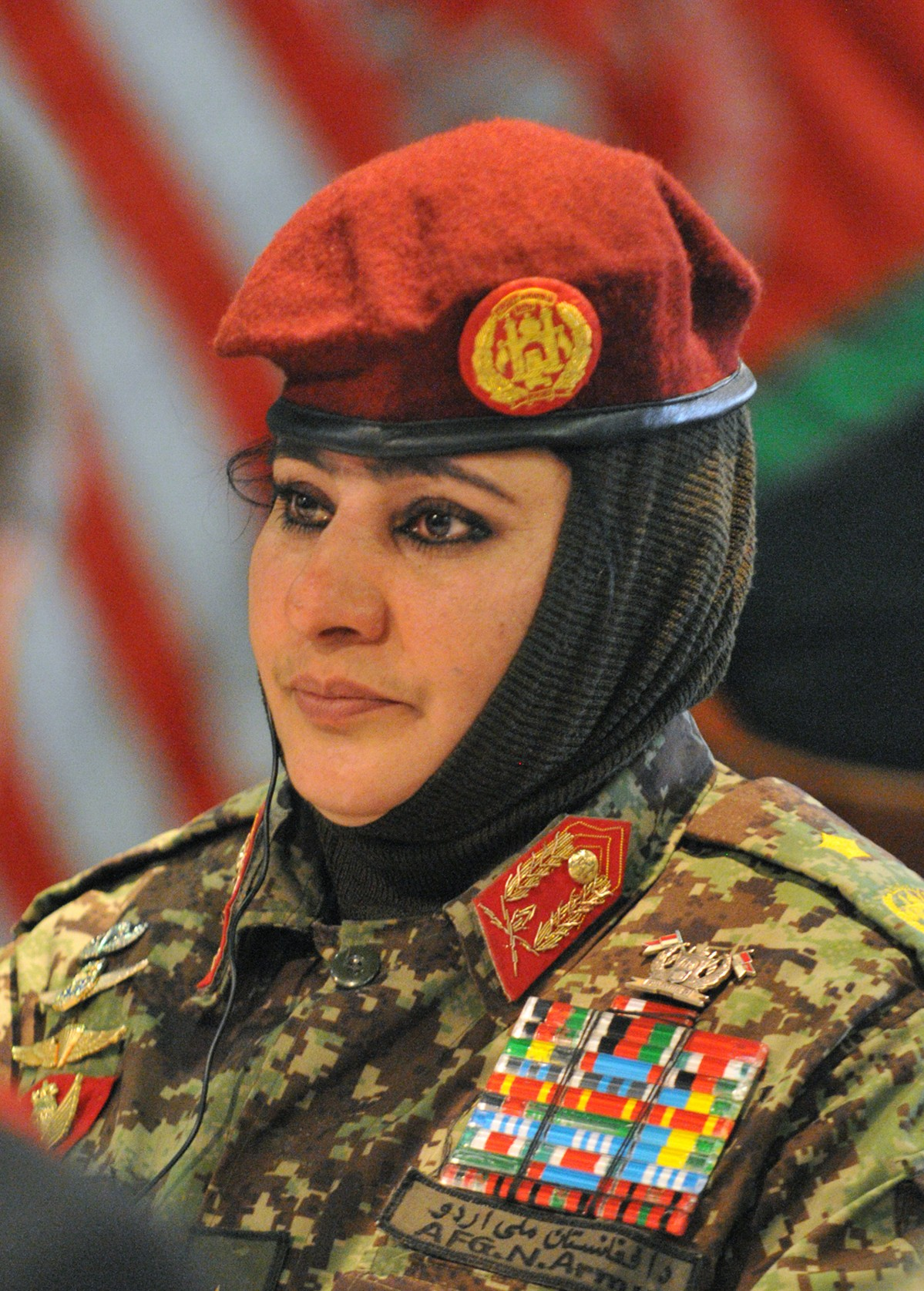 Afghan National Army Brig. Gen. Khatool Mohammadzai attended the Gender Integration Luncheon at ISAF Headquarters, Feb. 25. The attendees, which included ambassadors, representatives from the United Nations, non-governmental agencies and Afghan ministries, discussed the many strides made in women-related issues in Afghanistan and the Afghan National Security Force.